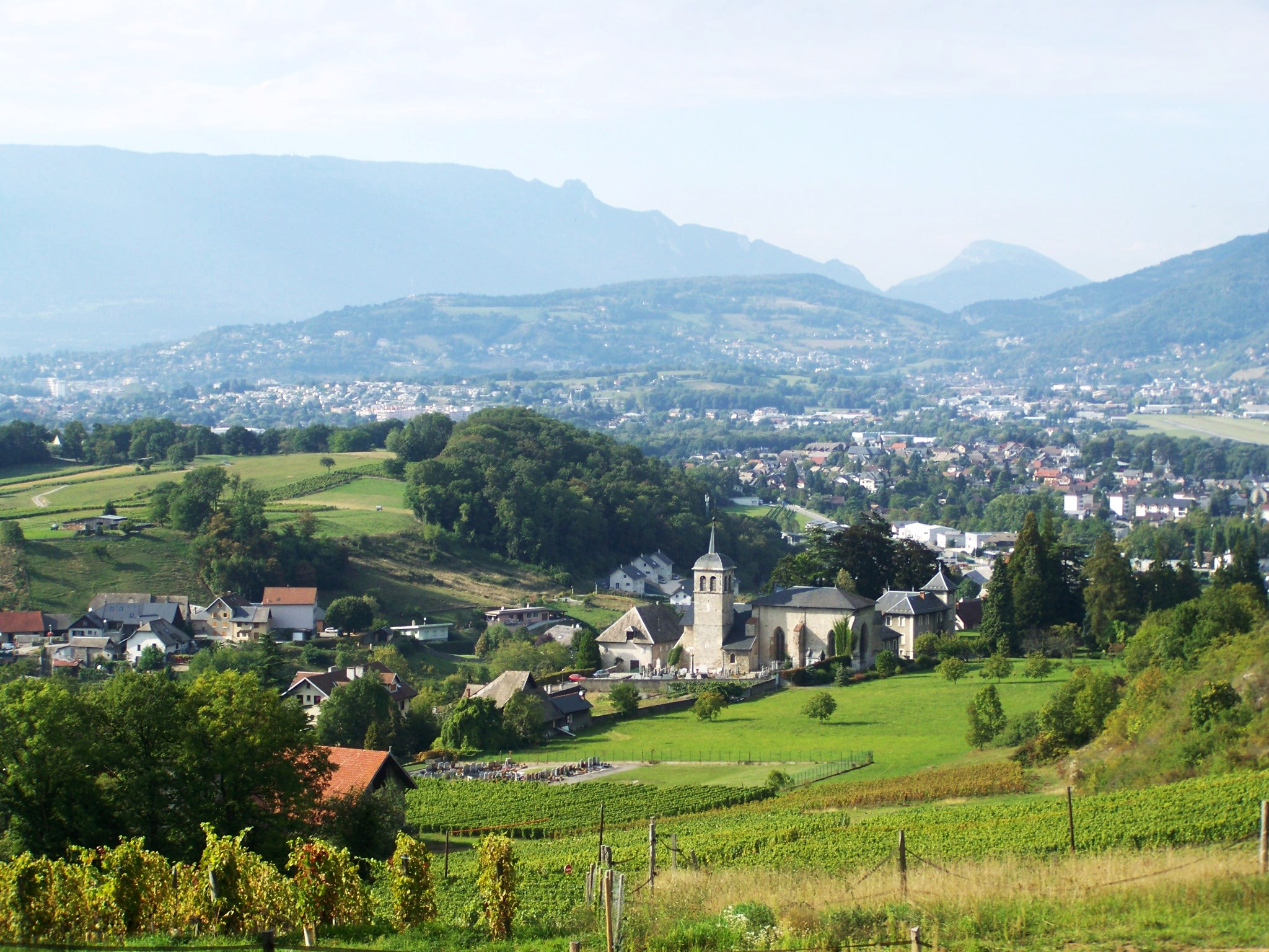 Sight on the French commune of St-Jeoire Prieuré and its church, from the vineyards of the commune. At the background can also be seen Challes les Eaux and la Ravoire, close to Chambéry in Savoie.